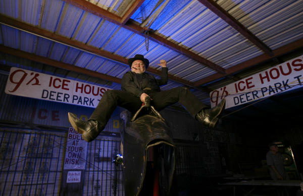 Gator Conley on mechanical bull, invented by Sherwood Cryer. Photographed in 2007 at G's Ice House.